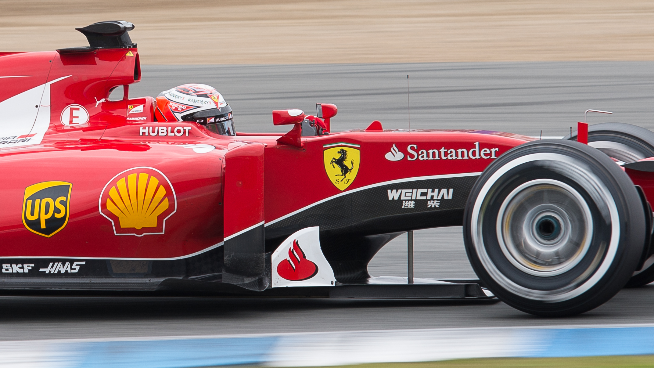 Kimi Räikkönen is a Finnish racing driver. He won the 2007 Formula One World Drivers' Championship with Scuderia Ferrari. He is pictured here piloting the SF-15 at the Circuito de Jerez during the first official test ahead of the 2015 Formula One season.